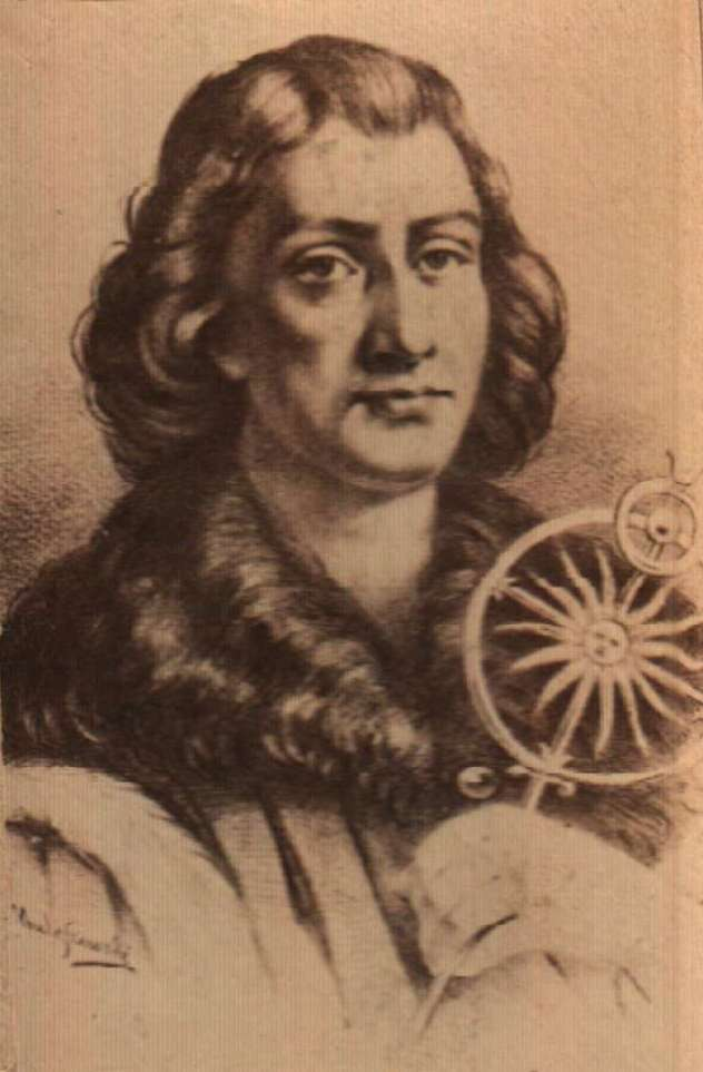 Nicolaus Copernicus